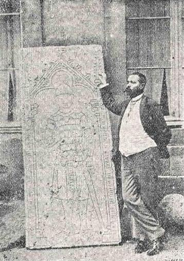 Pere Vidal's picture (taken from L'album du Centenaire, 1910)